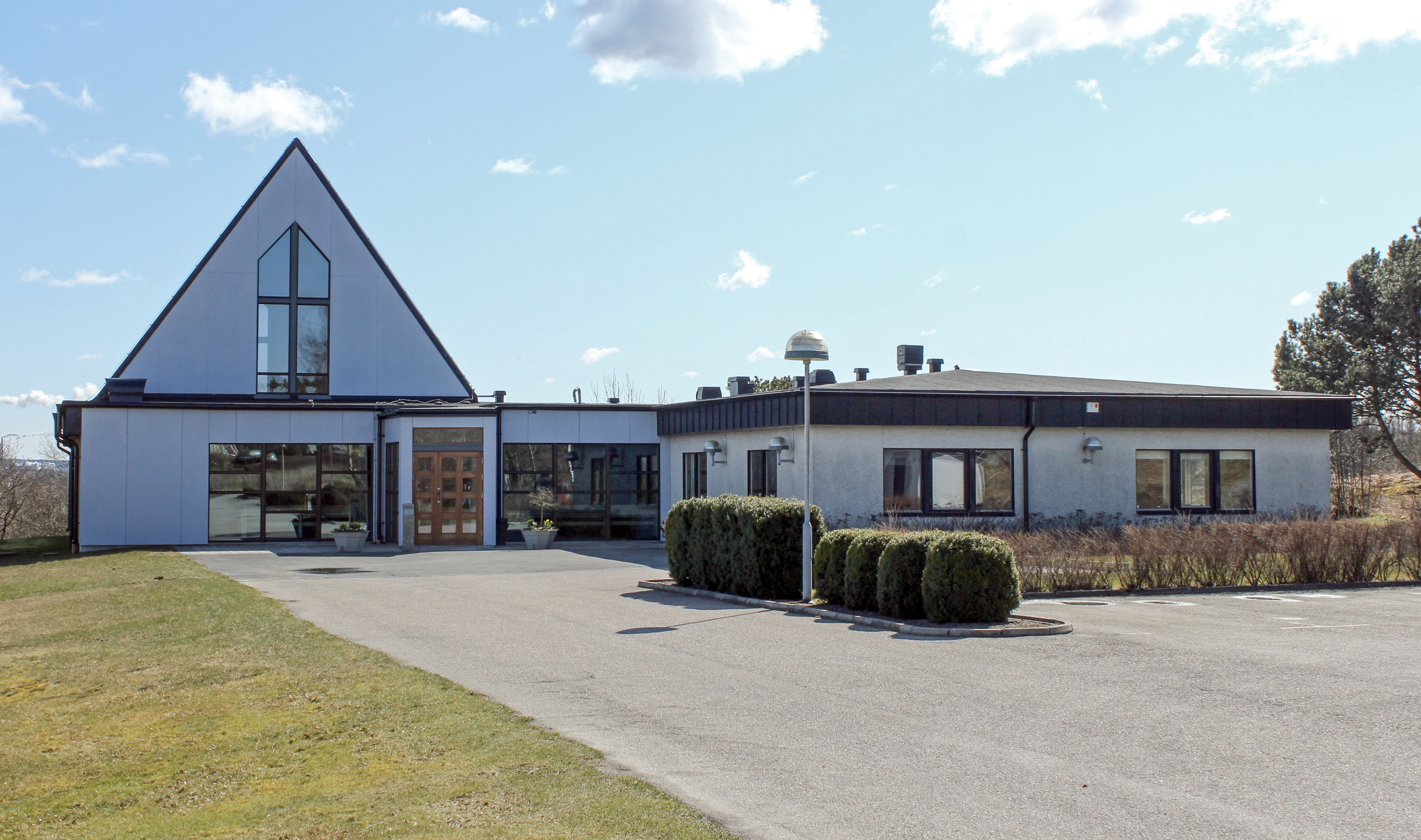 Bua kyrka (Bua church) in April 2012.